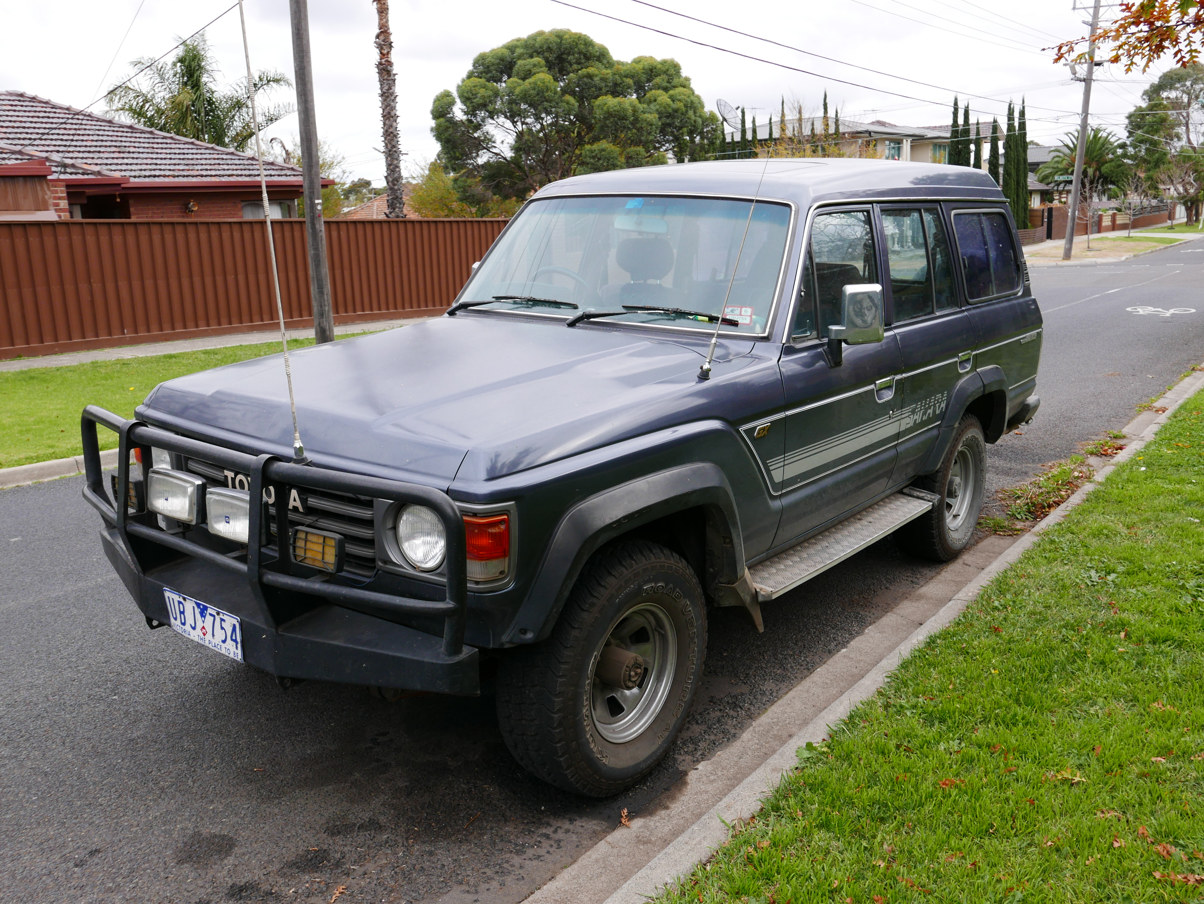 1985 Toyota Land Cruiser (FJ62RG) GX Sahara wagon. Photographed in Northcote, Victoria, Australia. Vehicle registration enquiry results Jurisdiction Victoria Registration UBJ754 Chassis code Not available Engine code 3F0034979 Compliance date Not available Year of manufacture 1985